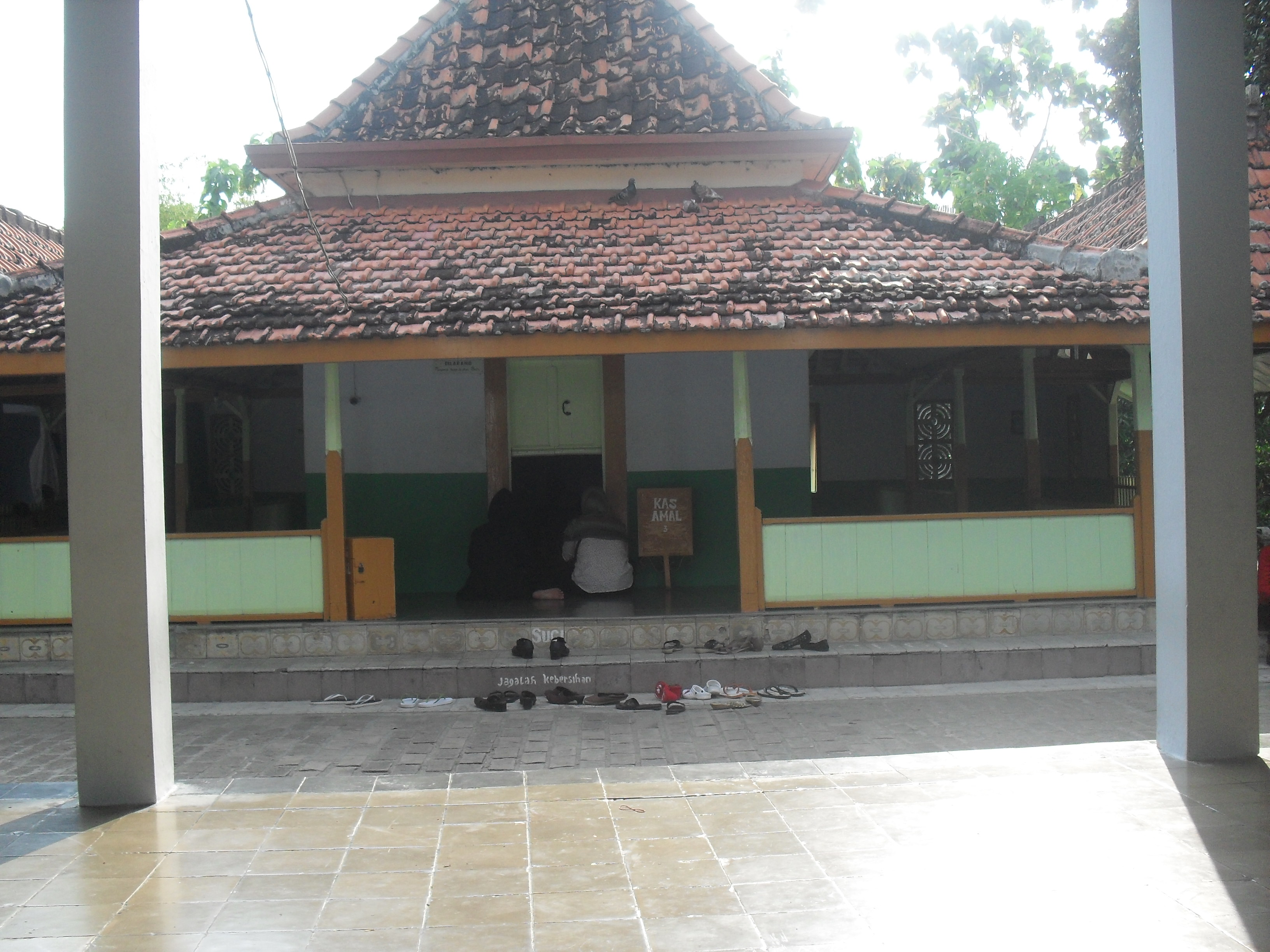 terdapat bekas pasujudan sunan bonang